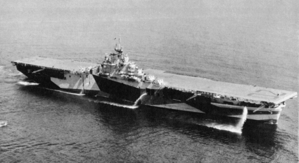 The U.S. Navy aircraft carrier USS Bennington (CV-20) underway off Long Island, New York (USA), on 25 September 1944. She is painted in camouflage Measure 32, Design 17A.